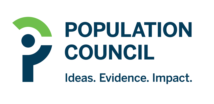 The Population Council's logo and tagline. Requests for use